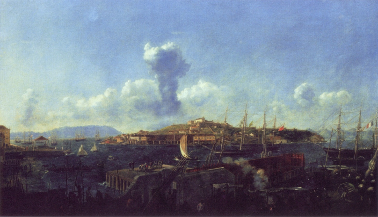 View of Ilhas das Cobras from Rio de Janeiro city. Painting located in the Museu Imperial in Petrópolis.